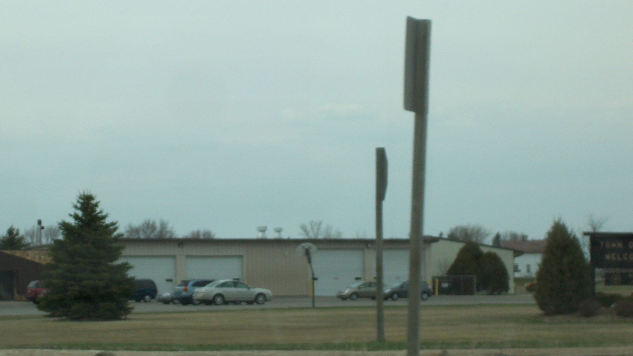 The town hall for Center, Outagamie County, Wisconsin on Wisconsin Highway 47.